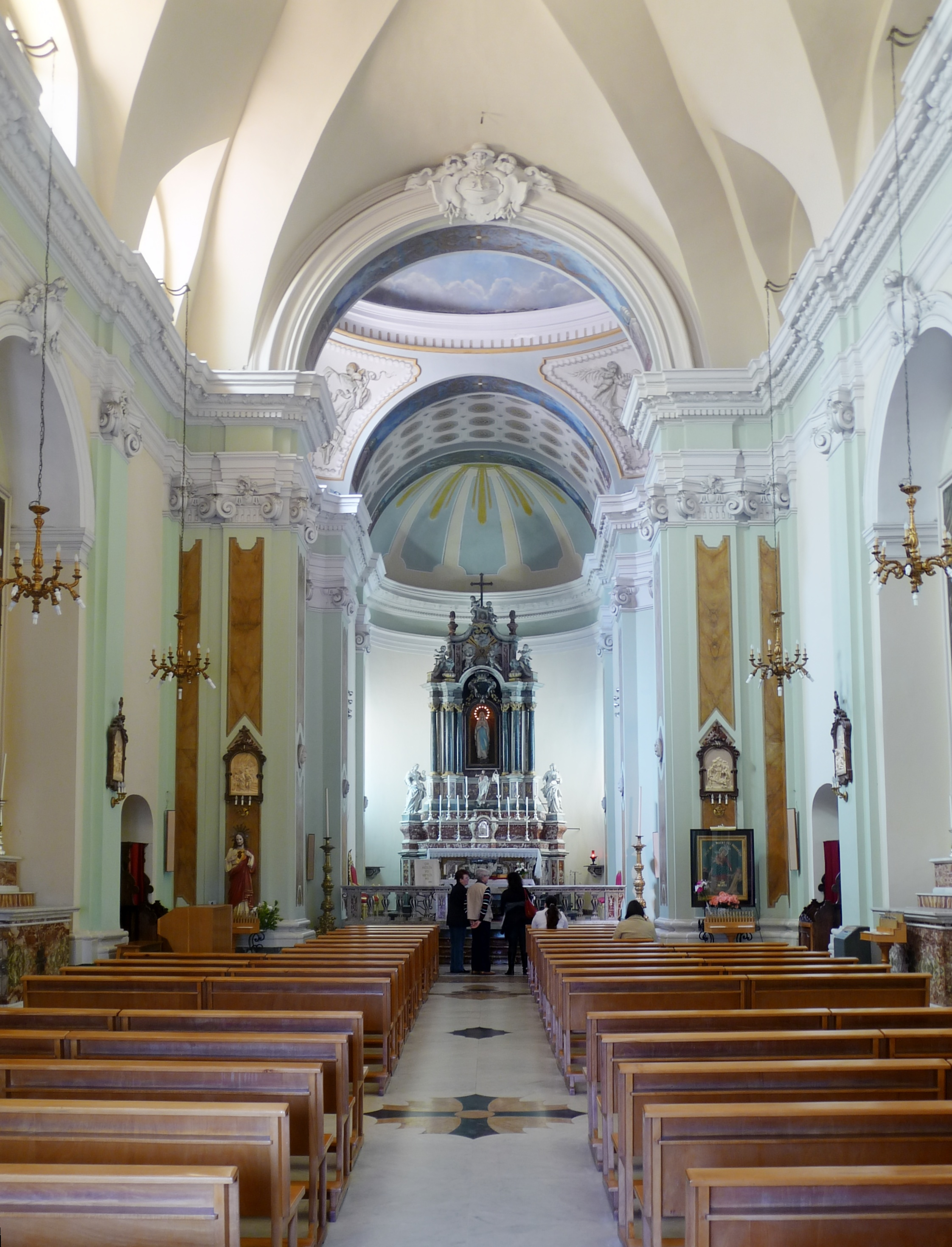 Church Sant'Agata alla Fornace (San Biagio), Catania, Sicily, Italy